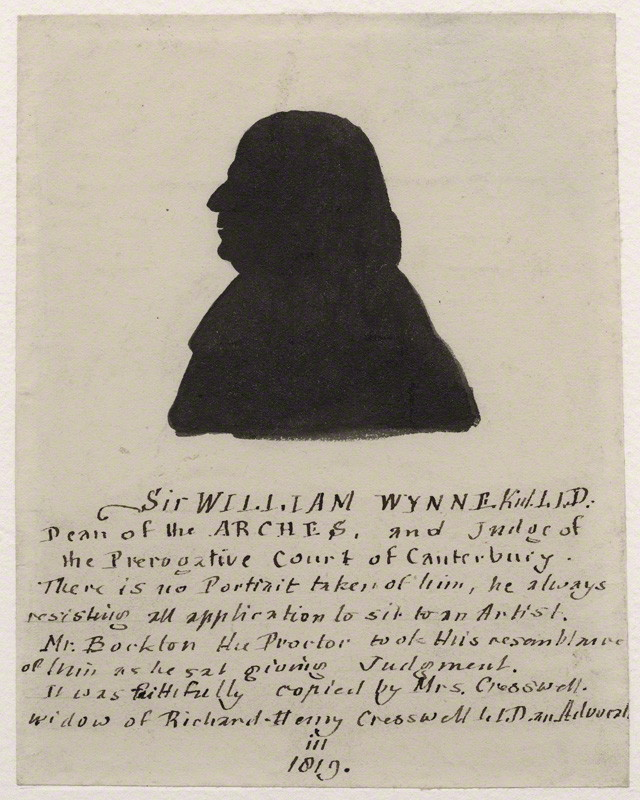 Silhouette portrait of Sir William Wynne (1729–1815), English judge and academic.